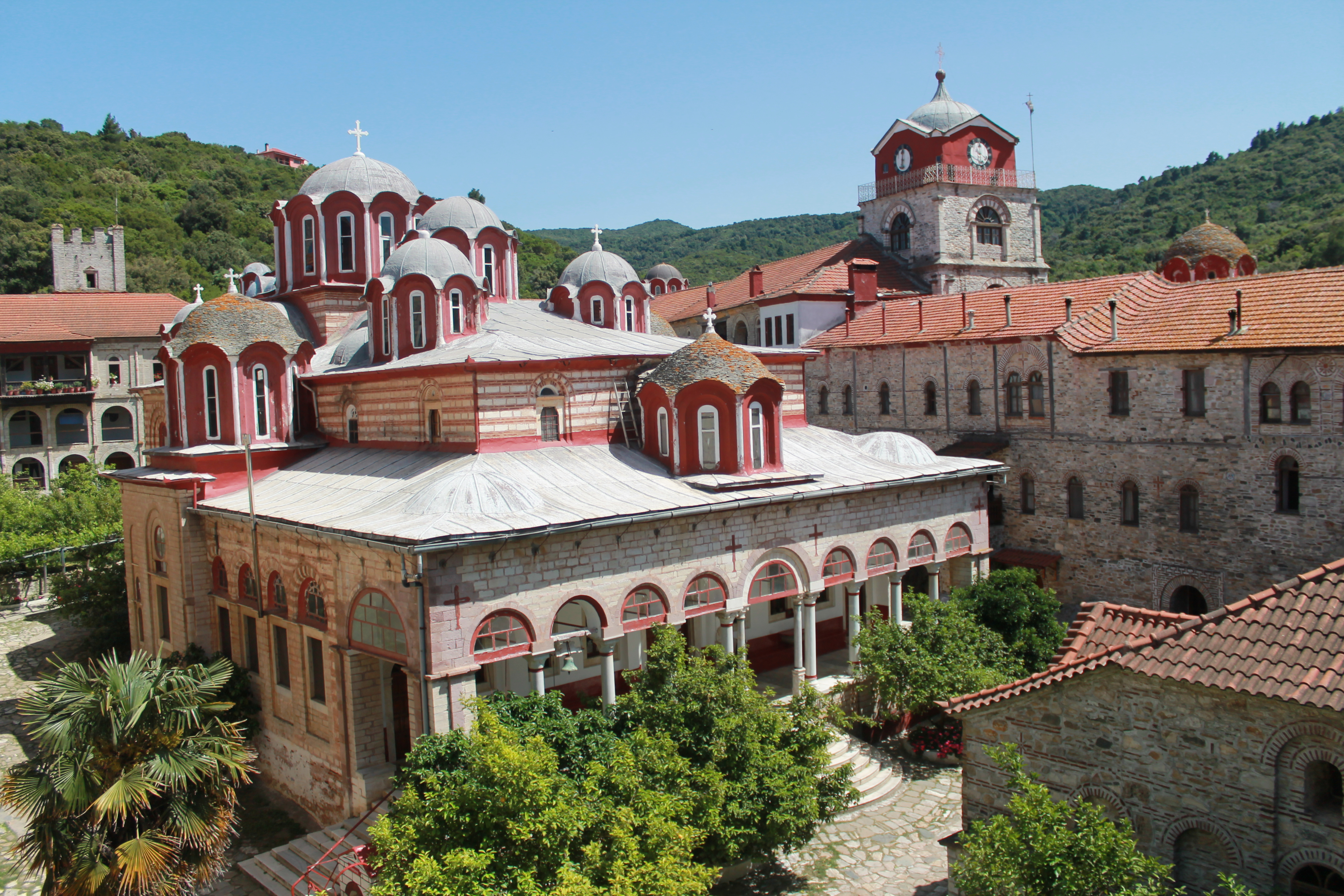 Katholikon in the monastery of Esphigmenou "Holy Ascension" in Mount Athos